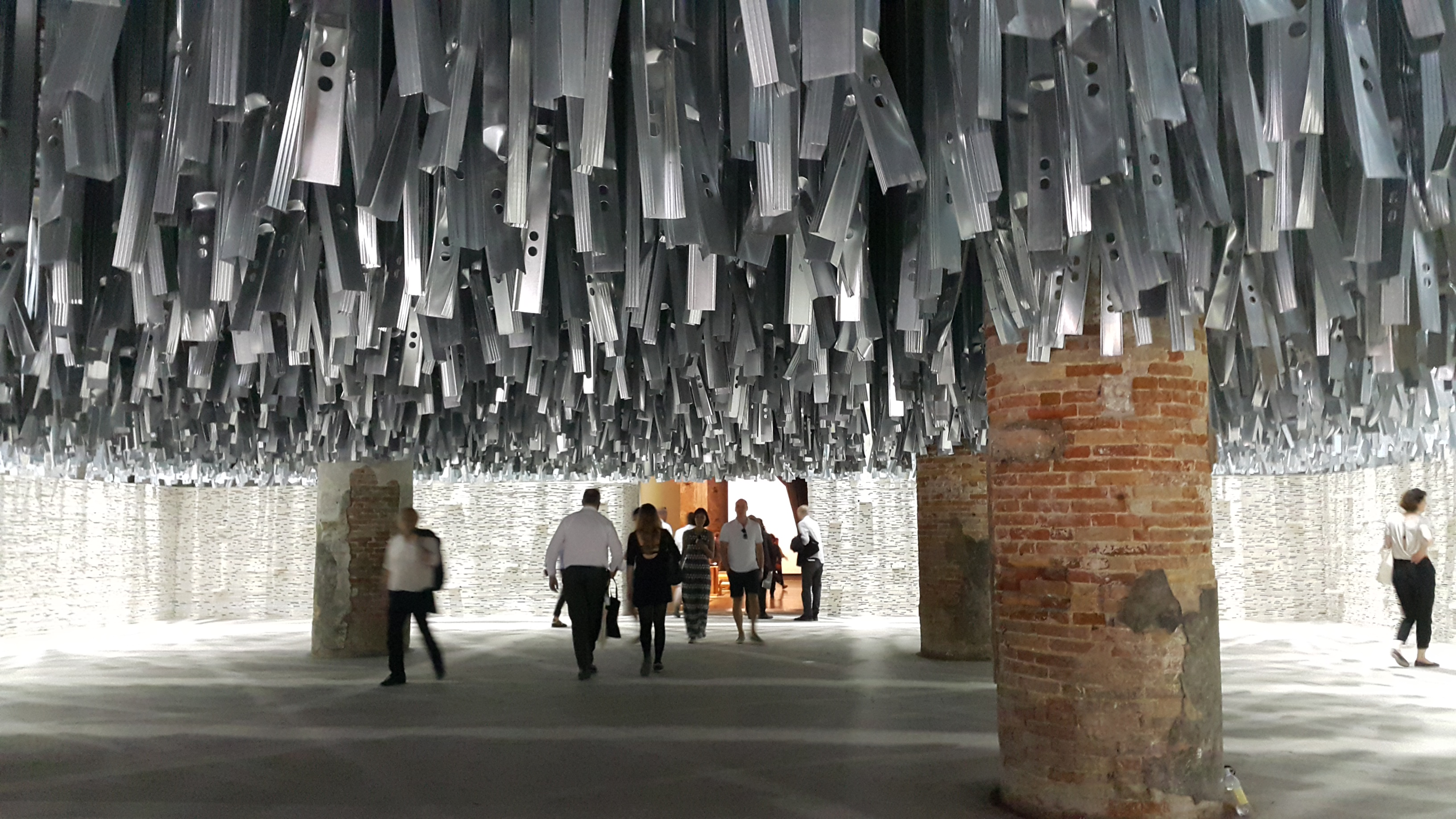 Reporting from the Front, Biennale di Venezia 2016. Curated by Alejandro Aravena. view from the main exhibition